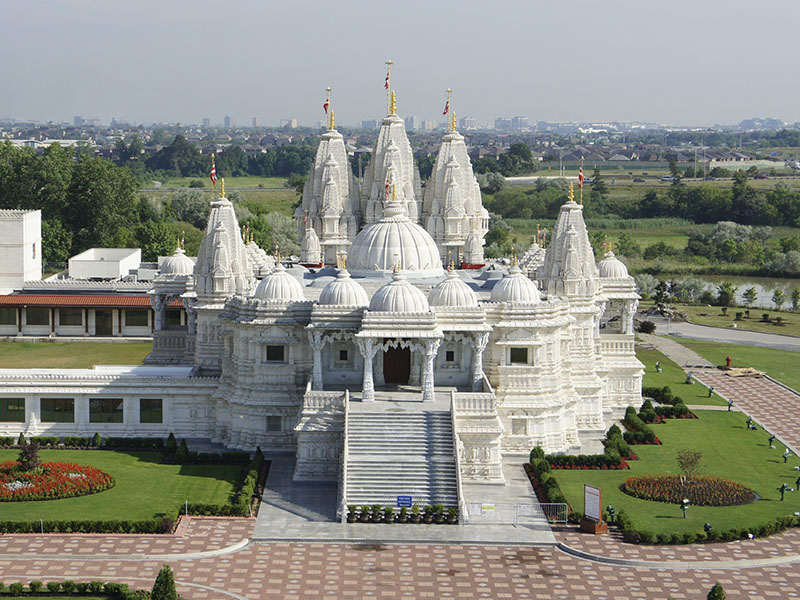 OTRS pending